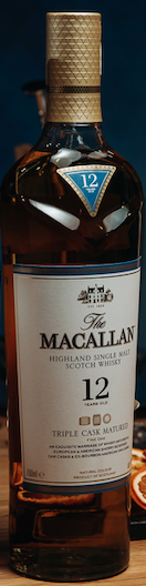 The Macallan 12 y.o. new bottle